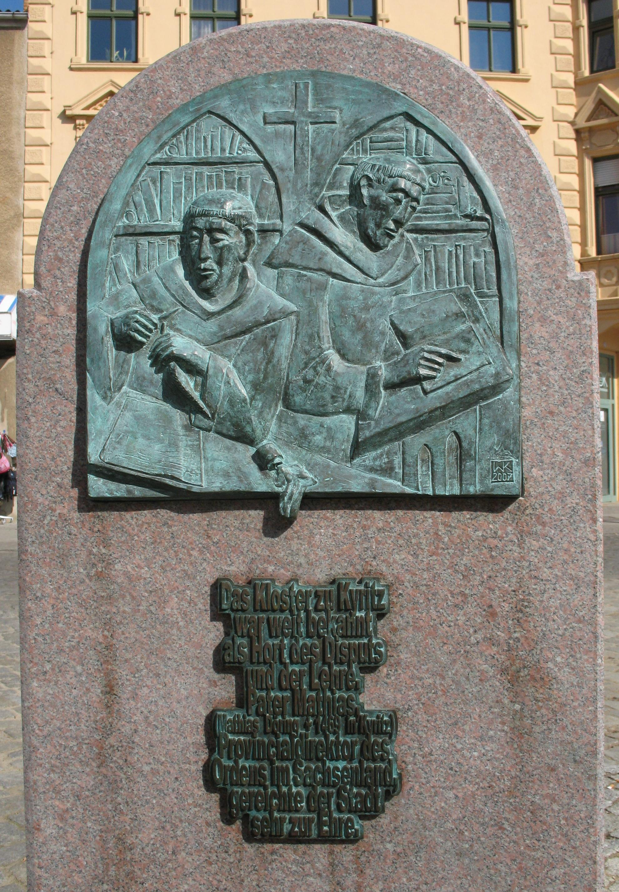 Fountain by Jan Witte-Kropius in Kyritz in Brandenburg, Germany